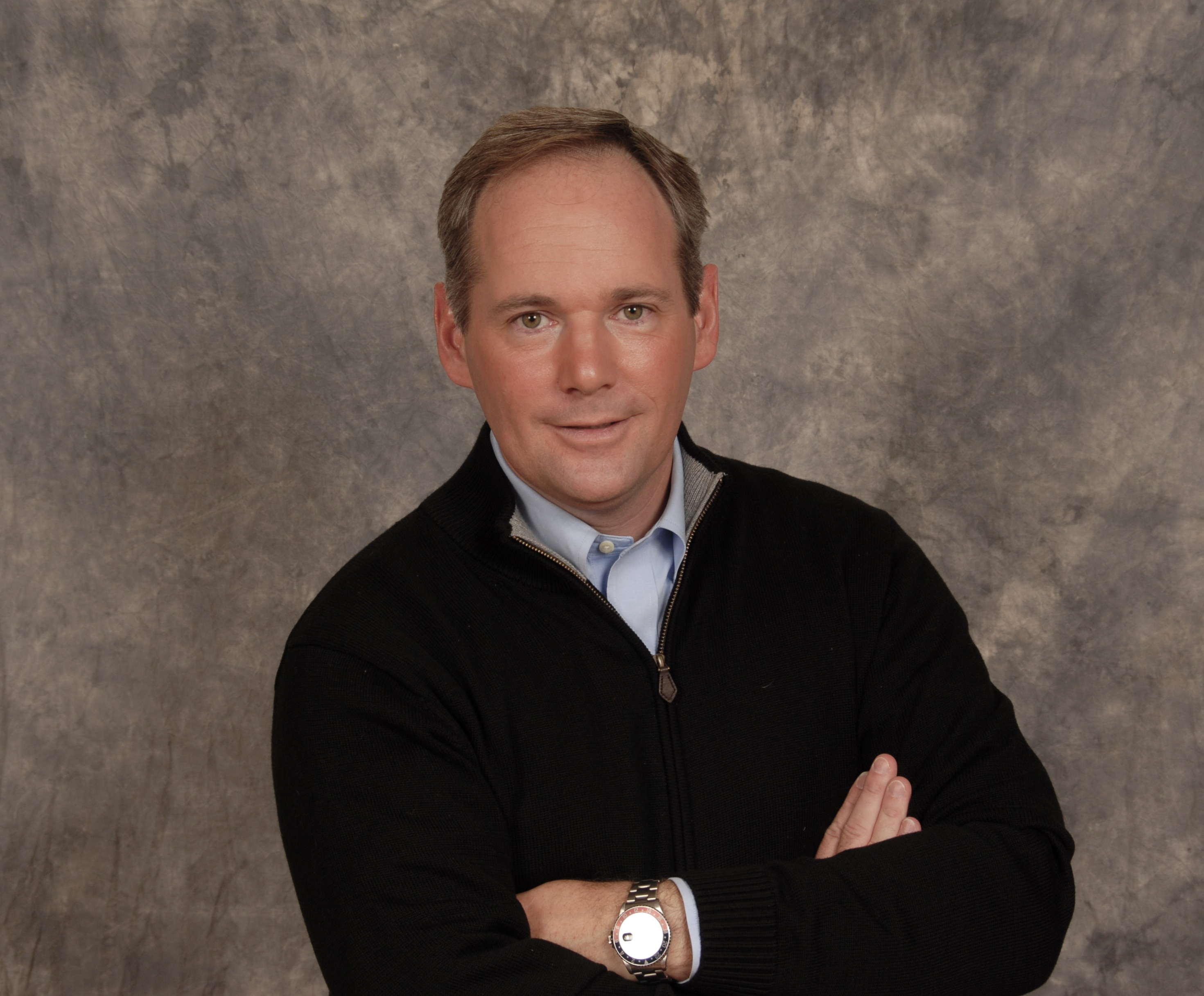 Tim Mayer, Motorsports Executive and Official.